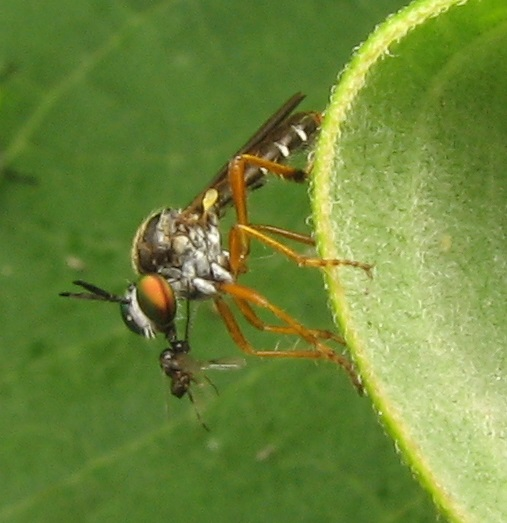 Robber fly, Taracticus octopunctatus, and prey on common milkweed. Schuylkill Nature Center, Philadelphia County, Pennsylvania, USA.